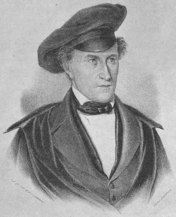 Carl Jonas Love Almquist (1793-1866). Originally published in the calendar Nordstjernan 1843